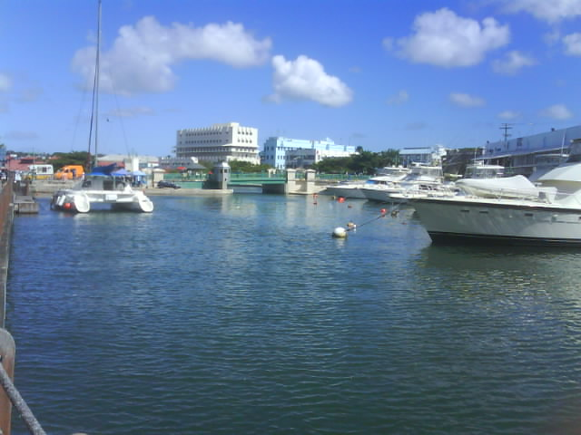 The Constitution River's Careenage area (outer basin), Bridgetown, Barbados